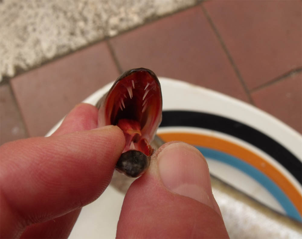 Teeth and mouth of a Sphyraena sphyraena bought in the Rome fish market.